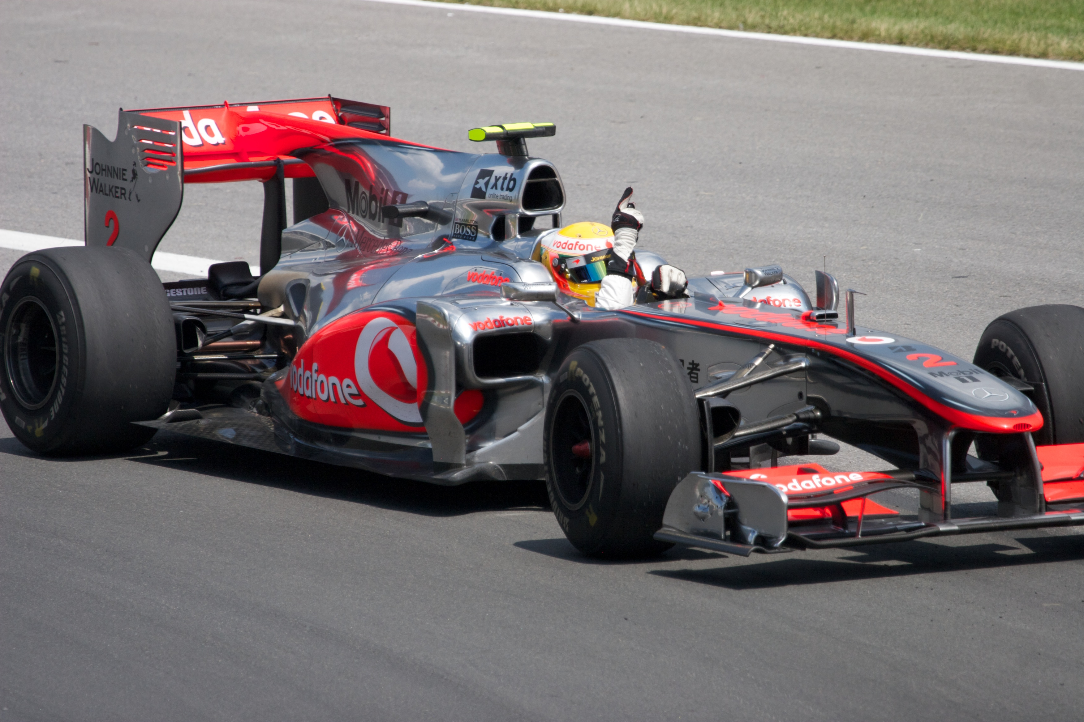 Formula One 2010 Rd.8 Canadian GP: Lewis Hamilton (McLaren) won the race.